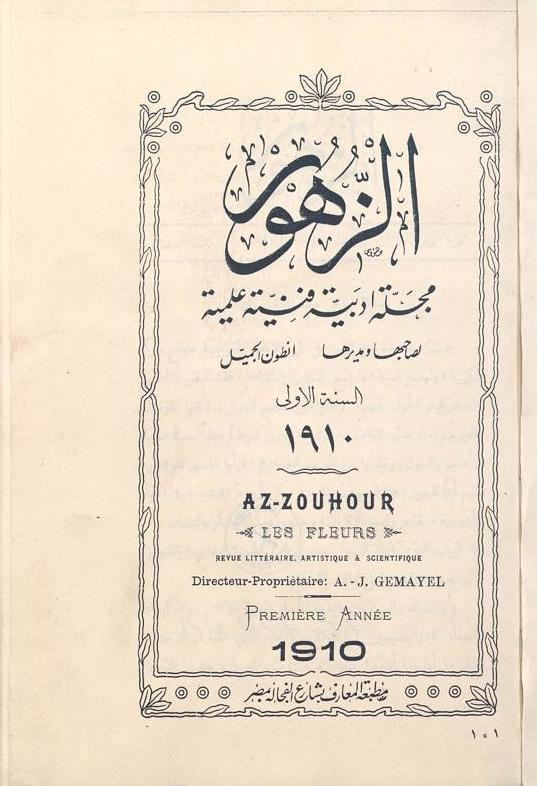 Cover of the 1st edition